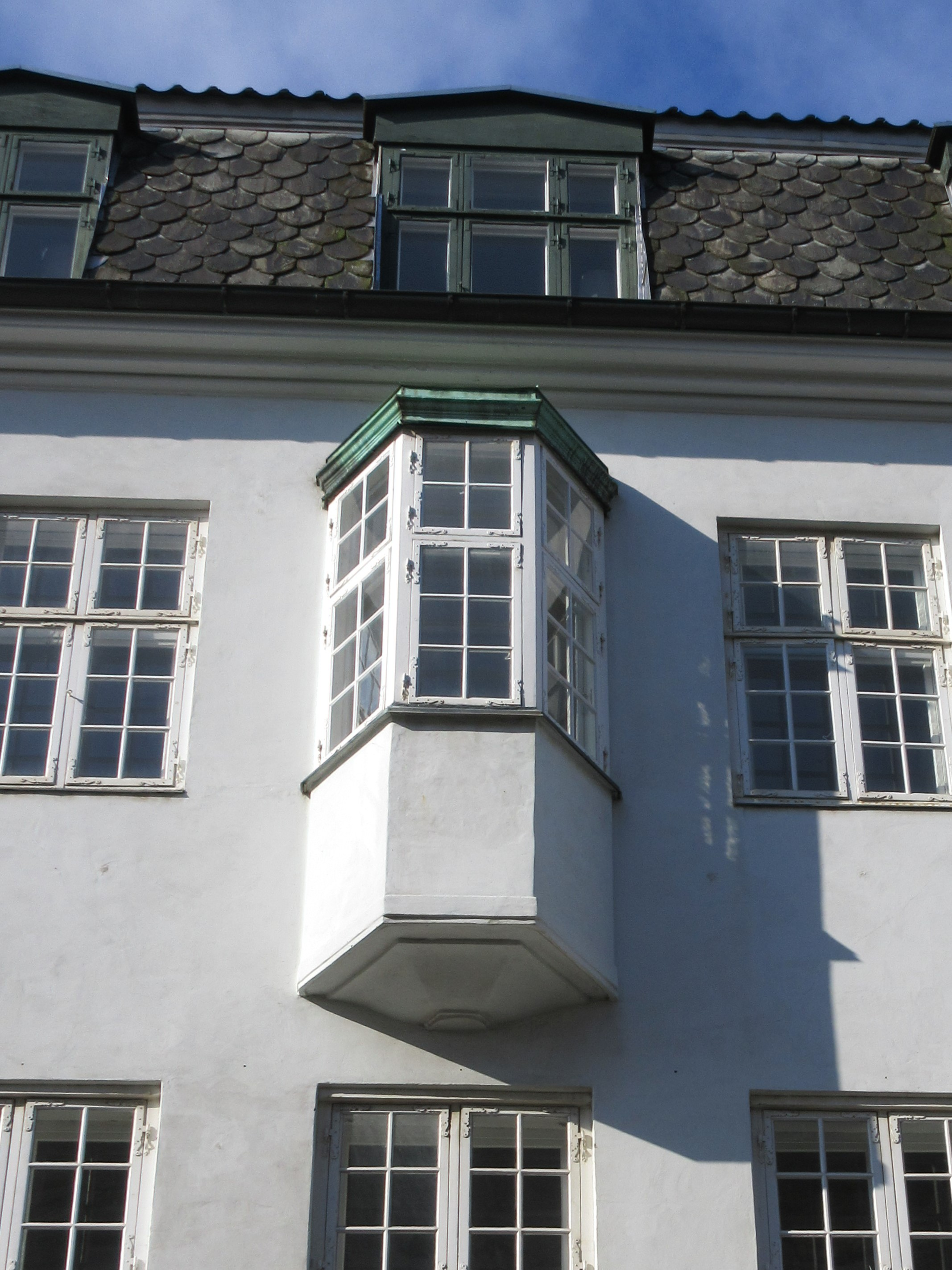 Oriel window at Kvæsthusgade 3 in Copenhagen, Denmark